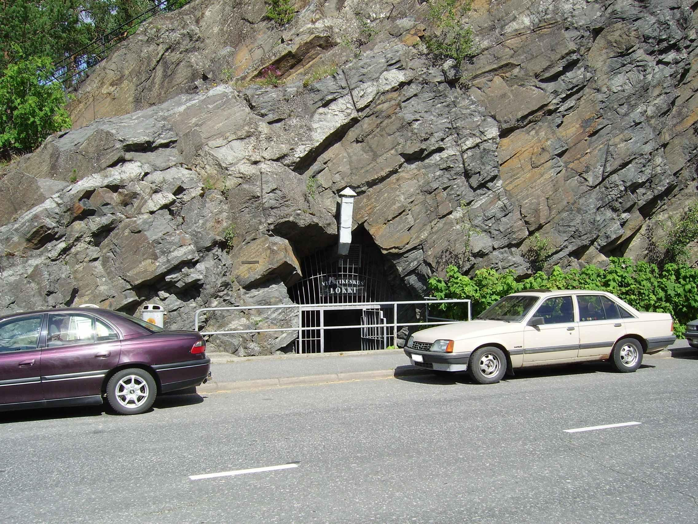 Entrace of the Finland’s war-time (1941–1945) headquarters’ communications center ”Lokki” inside the Naisvuori Mountain in Mikkeli. Headquarter’s telephone exchange, teletype and mail services were located in the bomb proof tunnels of Lokki.